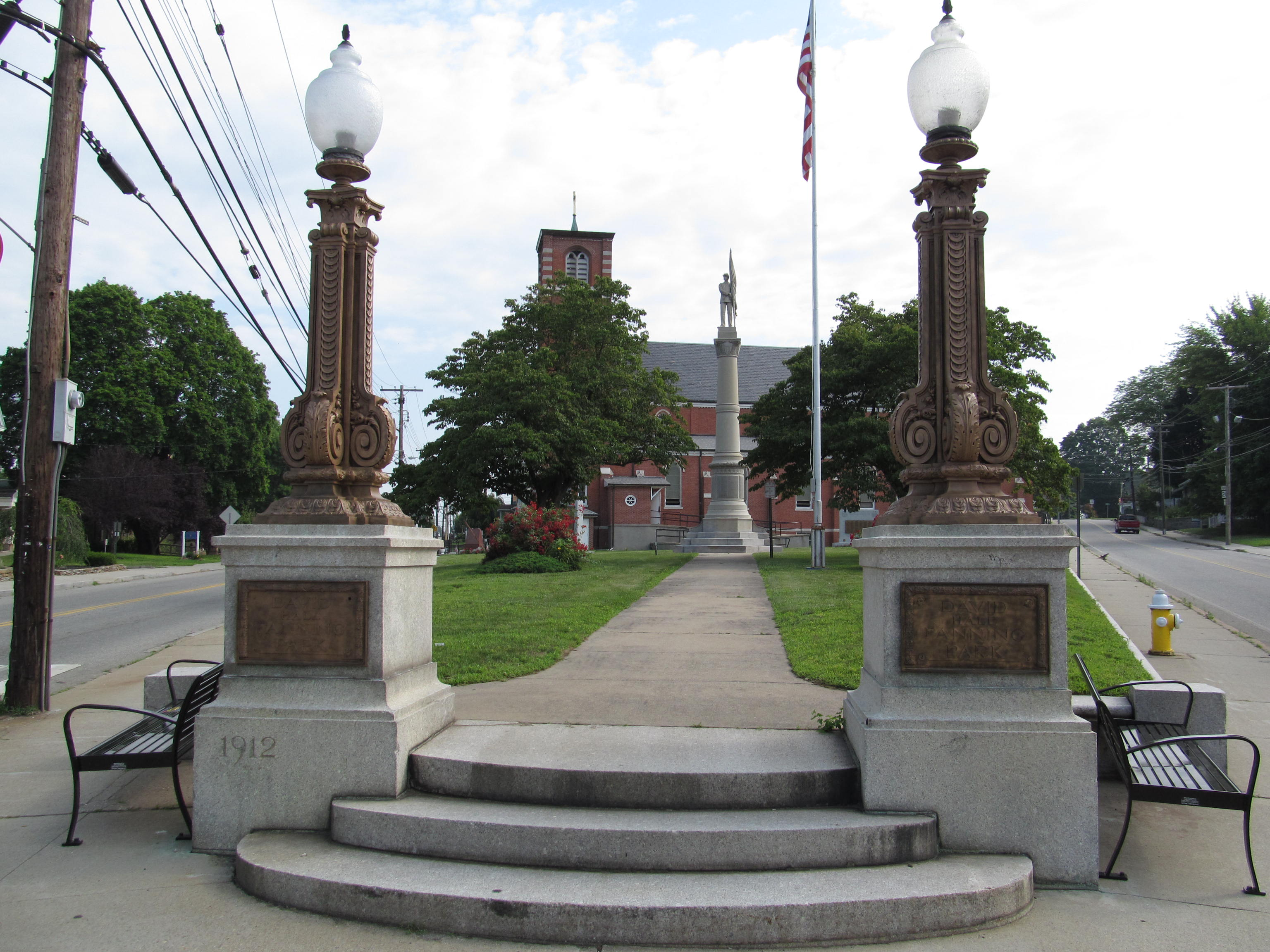 A shot from the center of Jewett City